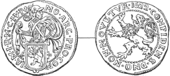 Image from Rivista italiana di numismatica 1891 (p. 421) Thaler of Maccagno (1622) imitating Dutch Leeuwendaalder (Lionthaler) MO • ARG • PRO • COM • IA • M • I • R • M • C • I • V • P (Moneta argentea pro Comite Iacobo Mandello in Regali Machanei Curia imperii Vicario perpetuo) Warrior bust over coat of arms with lion rampant • CONFIDENS • DNO • NON • MOVETVR 1622 coat of arms